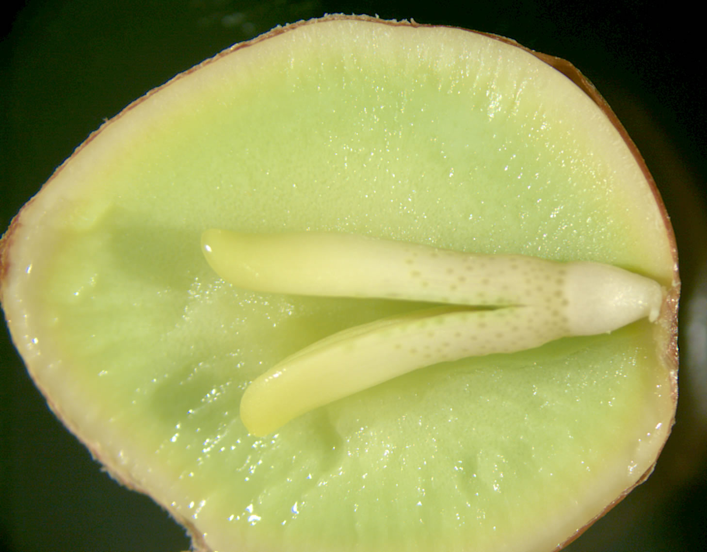 Seed collected from street tree in Upland, California, either directly from the tree or recently dropped to the ground below. Dissection by the photographer.